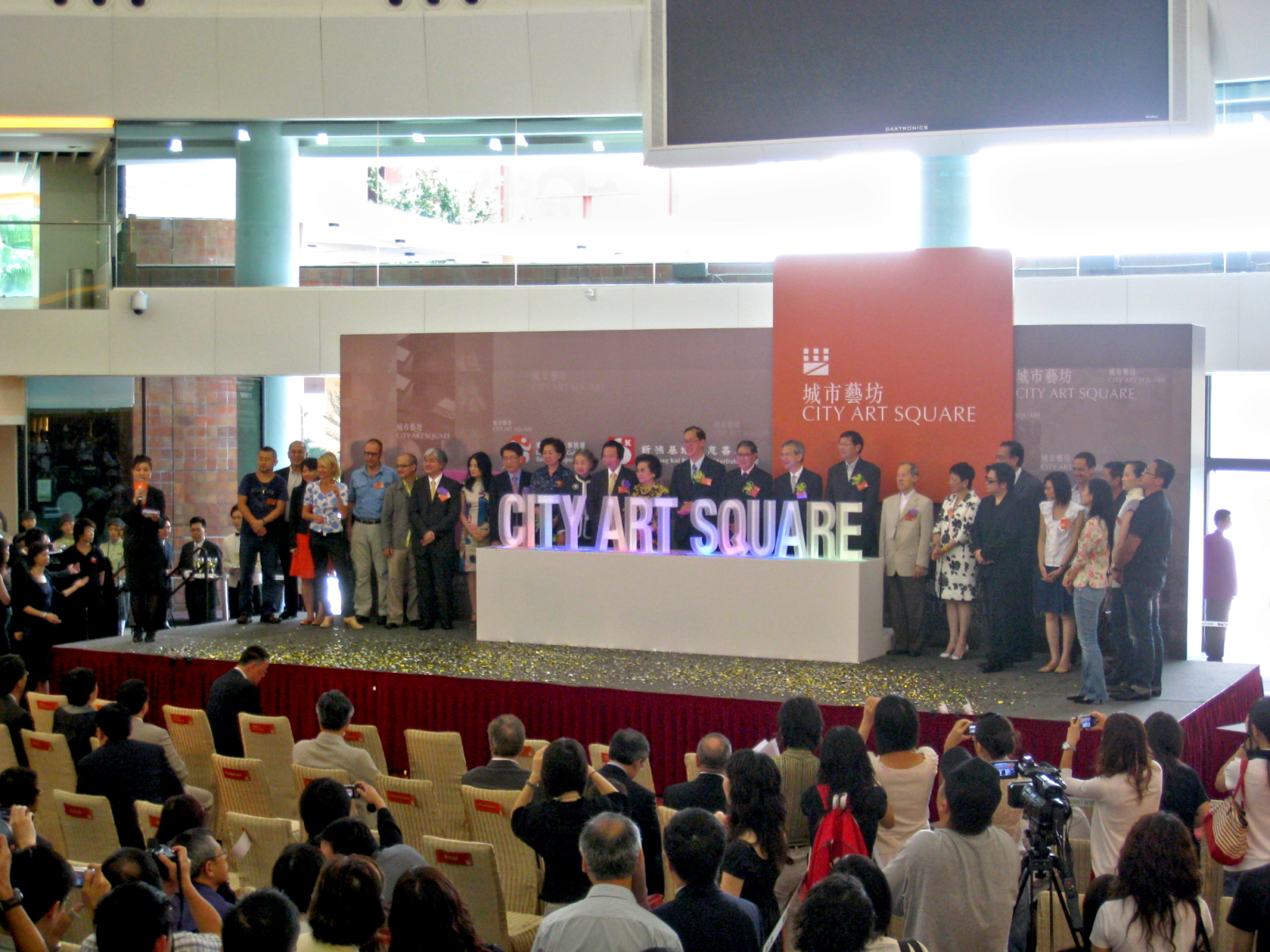 HK City Art Square Grand Opening Ceremony 城市藝坊揭幕典禮